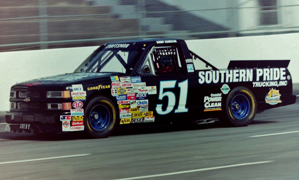 Bobby Hamilton drives the No. 51 Southern Pride Trucking Chevrolet in the NASCAR Craftsman Truck Series Hanes 250 at Martinsville Speedway, September 27 1997.